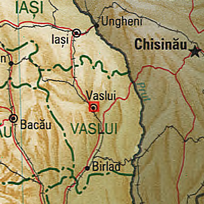 Map of Vaslui Municipality, Romania.